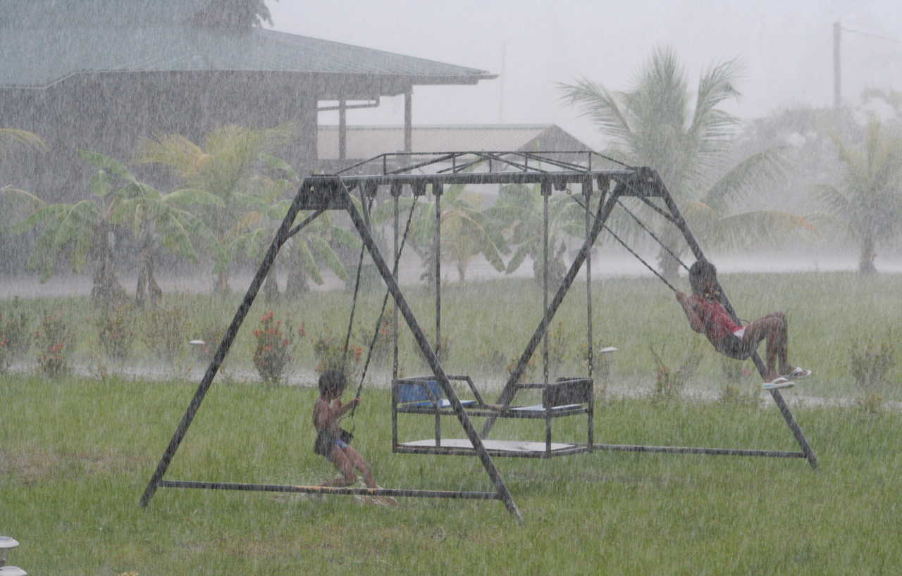 Overbridge holiday resort, Suriname river, Suriname. Summer shower.